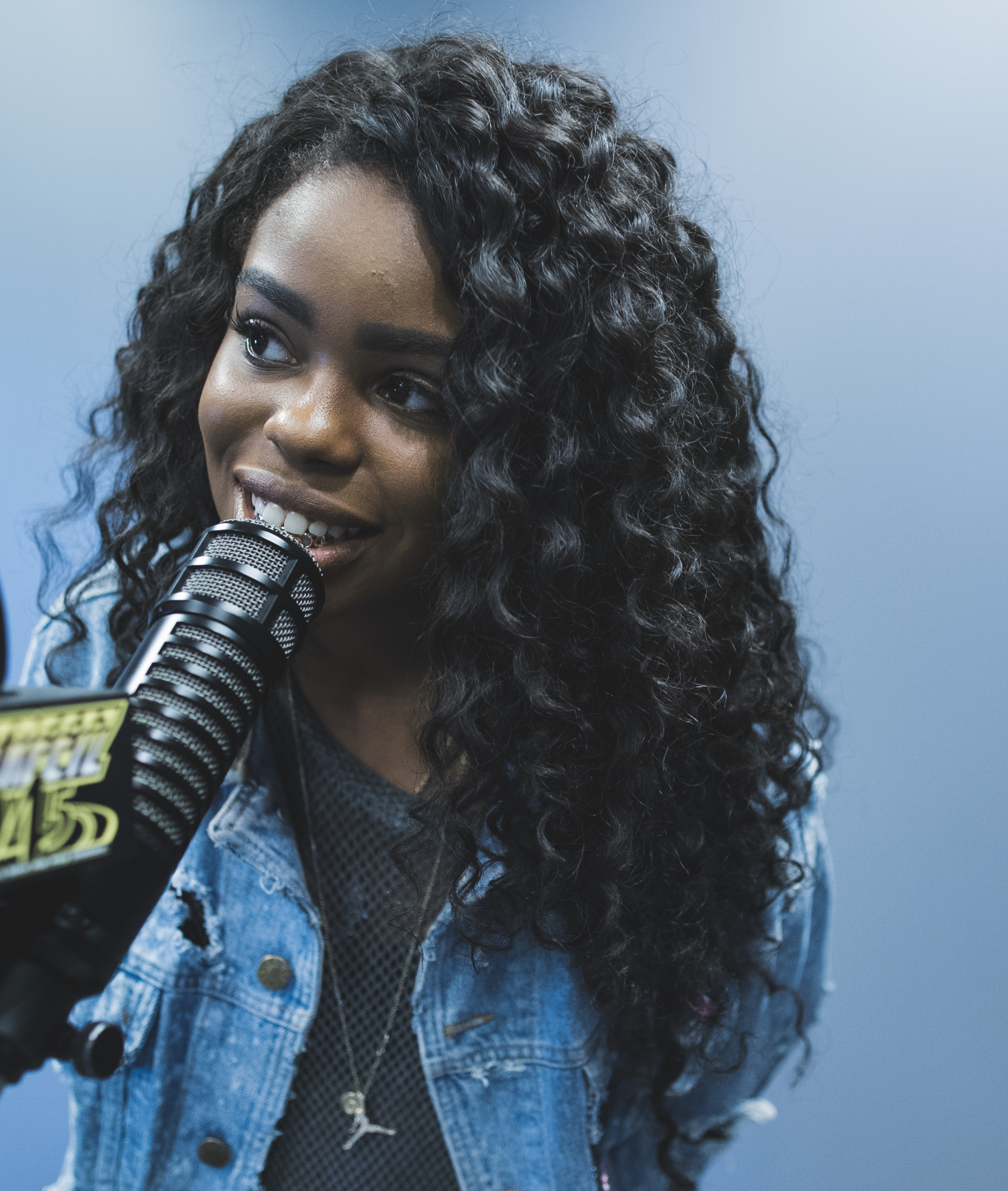 Dreezy in July 2017